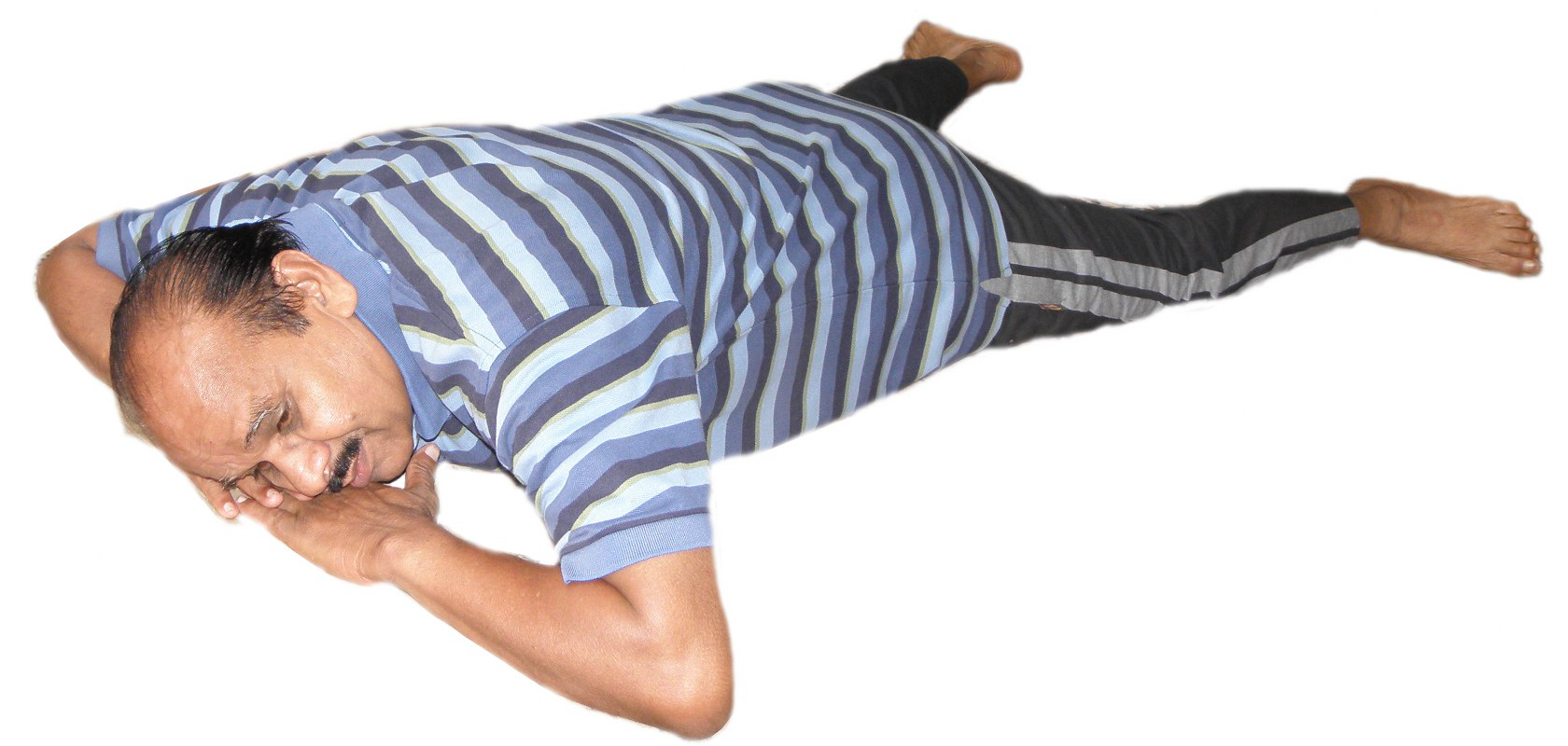 Crocodile pose